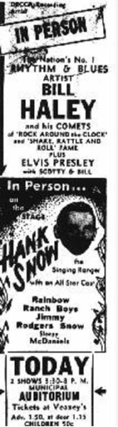 A ticket from a "Colonel" Tom Parker package tour with Bill Haley & the Comets, Elvis Presley and Hank Snow.